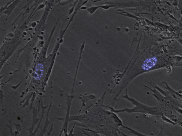 A merged phase contrast/fluorescence image of human embryonic lung cells (HEL-299) retrovirally transduced with a promyelocytic leukemia (PML) protein (isoform III) fused with the enhanced cyan fluorescent protein (eCFP).